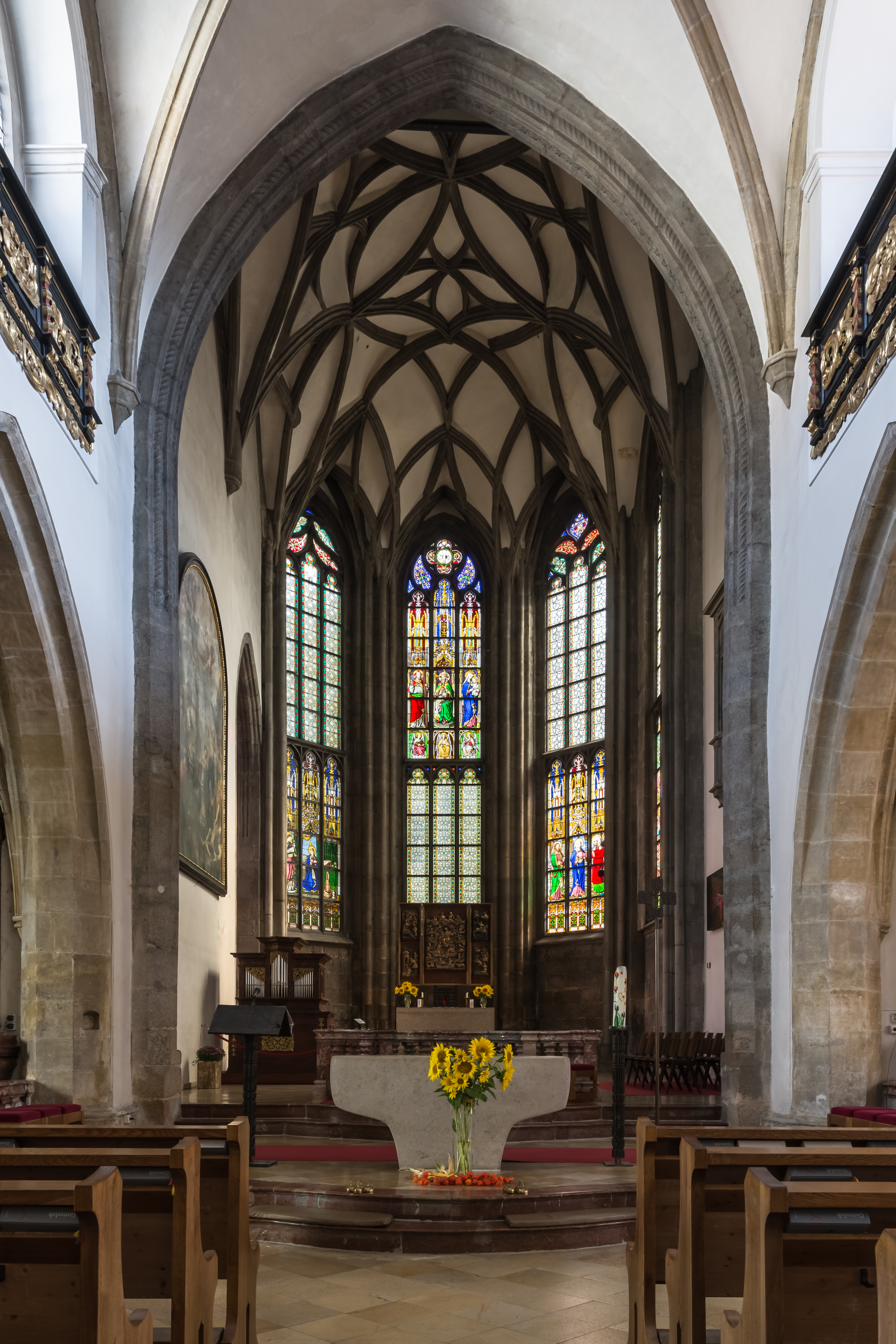 Interior of the parish church Freistadt, Upper Austria